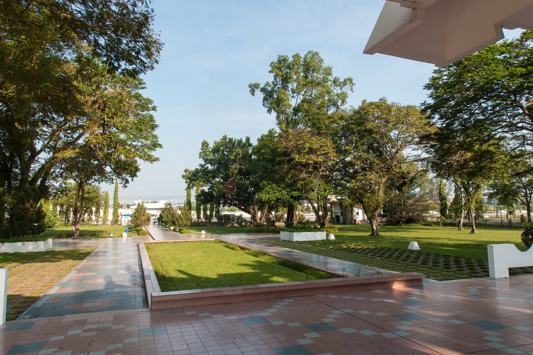 Kg. Petagas, District Putatan: Petagas War Memorial, View from Memorial to the Gate